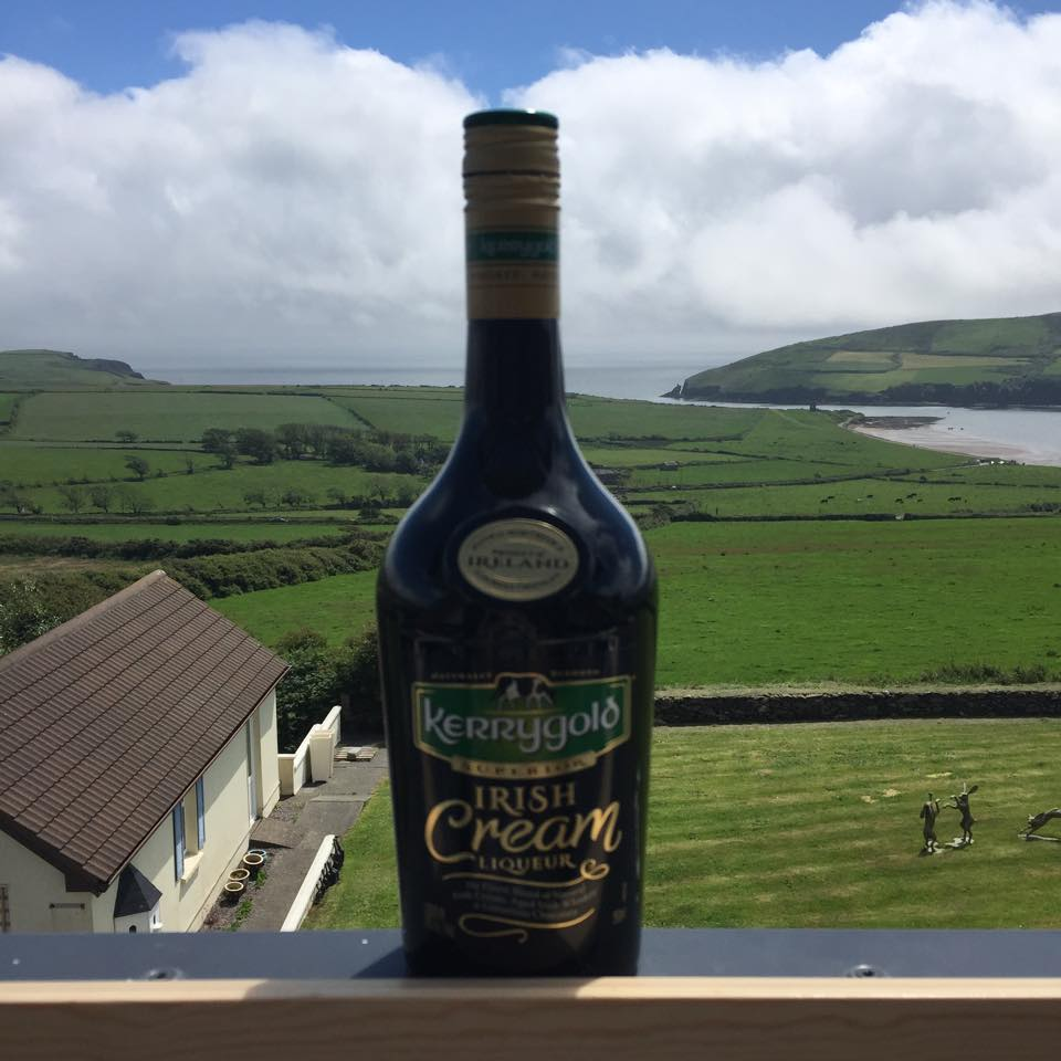 Kerrygold Displayed in front of scenic Dingle